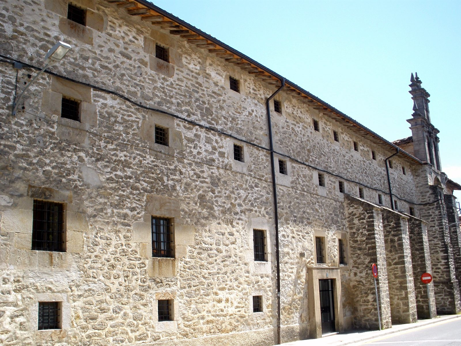 Convento de Santa Clara (Alegría-Dulantzi)